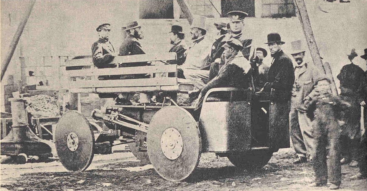 Dudgeon Steam Automobile, built in 1857 in USA, destroyed by Crystal Palace fire in Oct 5, 1858